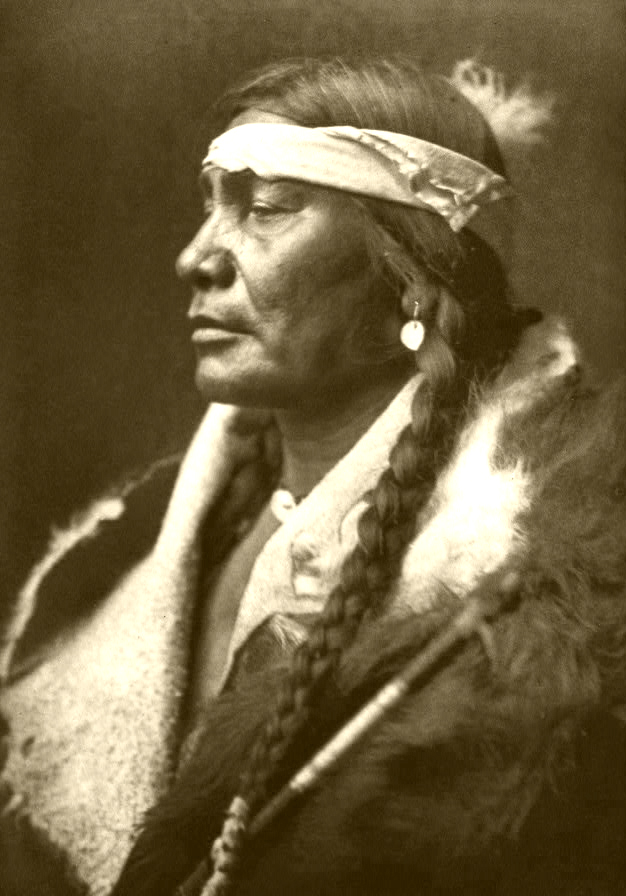 Assiniboin Man (Natyinehitha in his native tongue) - an Atsina (Gros Ventres) Indian Edward S. Curtis, 1909 Northwestern University Library, Edward S. Curtis's 'The North American Indian': the Photographic Images, 2001.